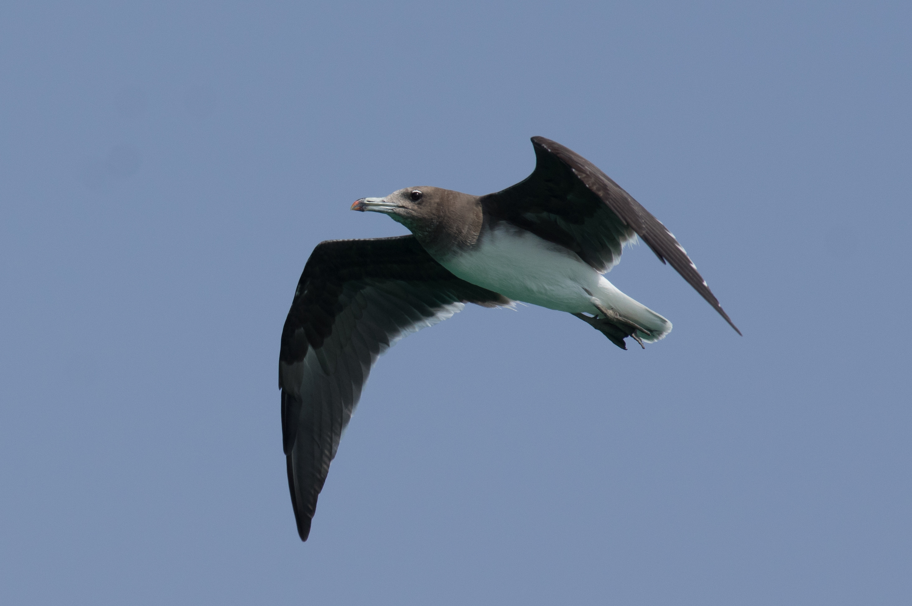 Sooty gull in flight (Ichthyaetus hemprichii), Salalah, Oman